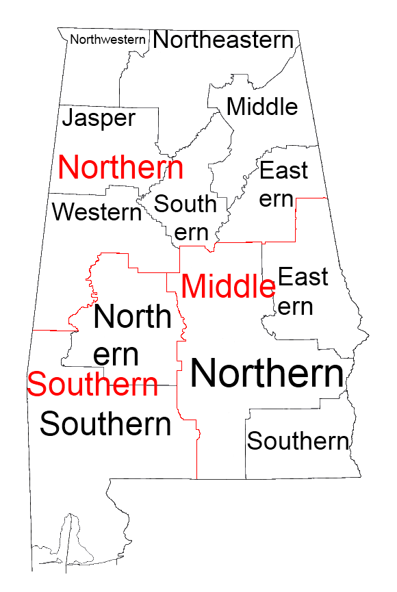 Map of Alabama U.S. District Courts (borders from Image:Alabama counties map.png, info from 28 U.S.C. § 81)Legend: Division border District borderNorthern Division nameNorthern District name